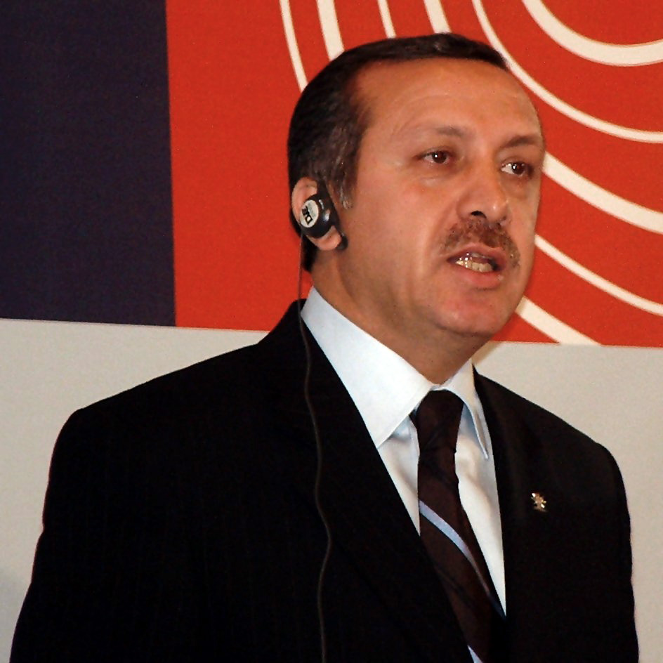 Recep Tayyip Erdoğan, Prime Minister of Turkey, during visit in Copenhagen, 2002. Photo by Bertil Videt.